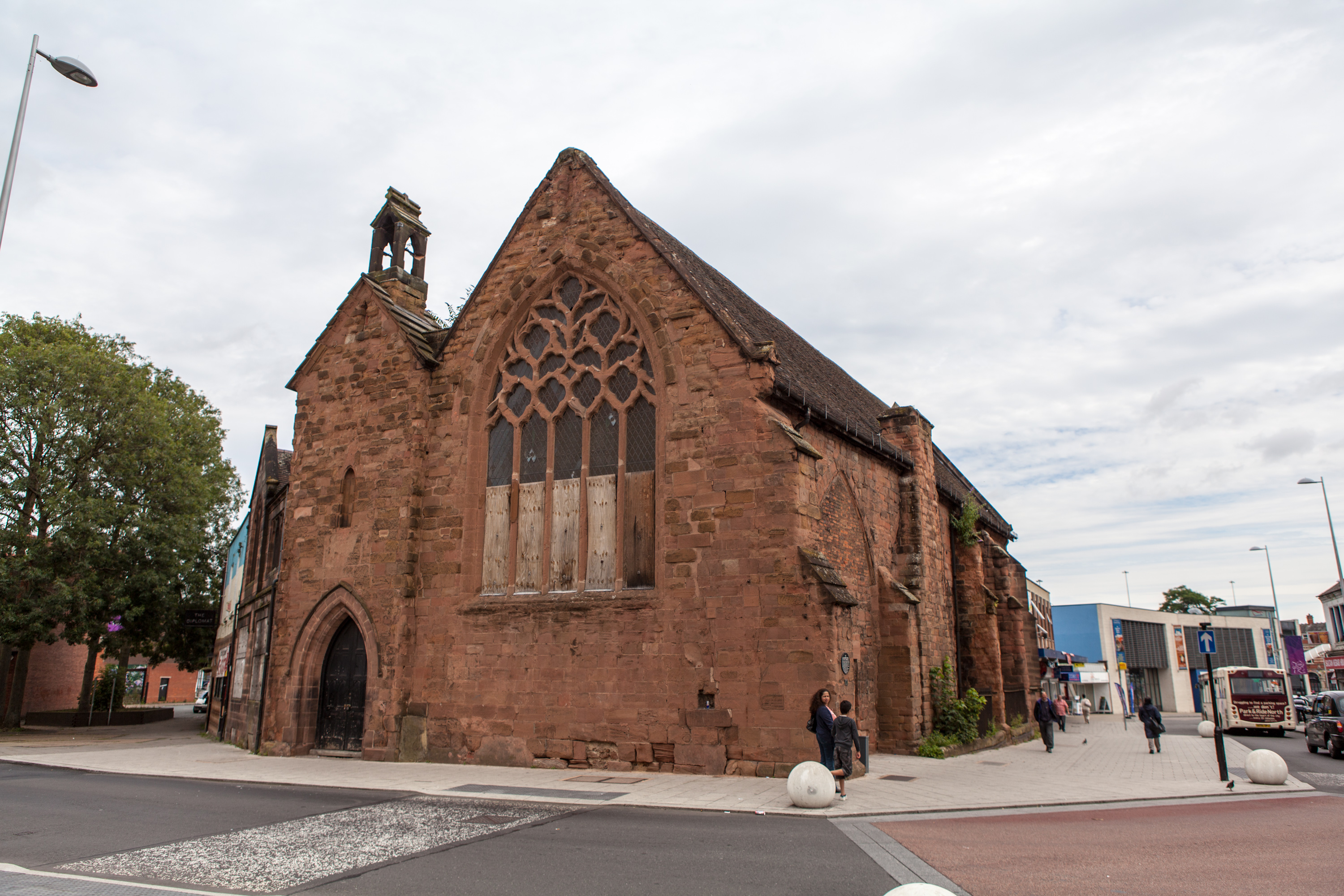 A18 - Old Grammar School in Coventry, UK